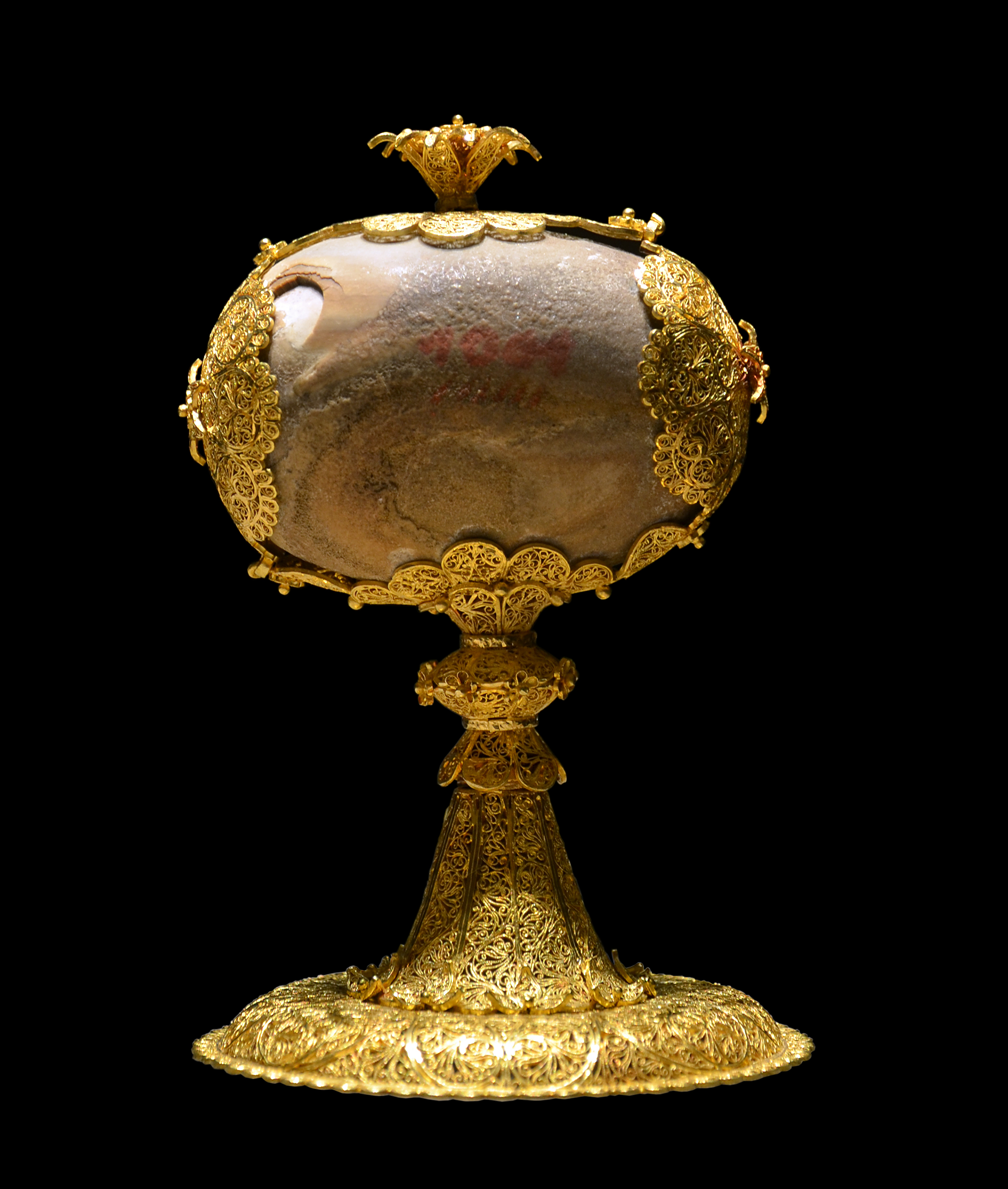 Bezoar mounted in gold filigree, 4th quarter of the 17th century, from Goa (India). Now in the Kunsthistorisches Museum in Vienna.